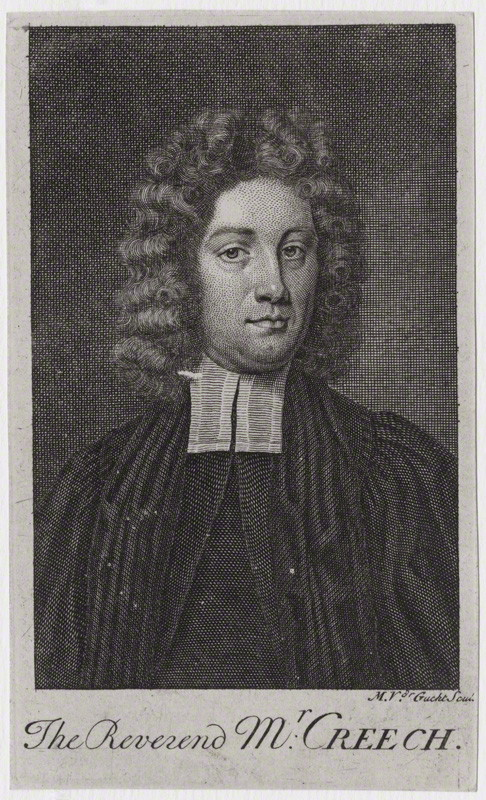 Thomas Creech (1659-1700), Translator and classical scholar. by Michael Vandergucht (1660-1725), Engraver line engraving, early 18th century 5 in. x 3 in. (127 mm x 77 mm) paper size NPG D31263